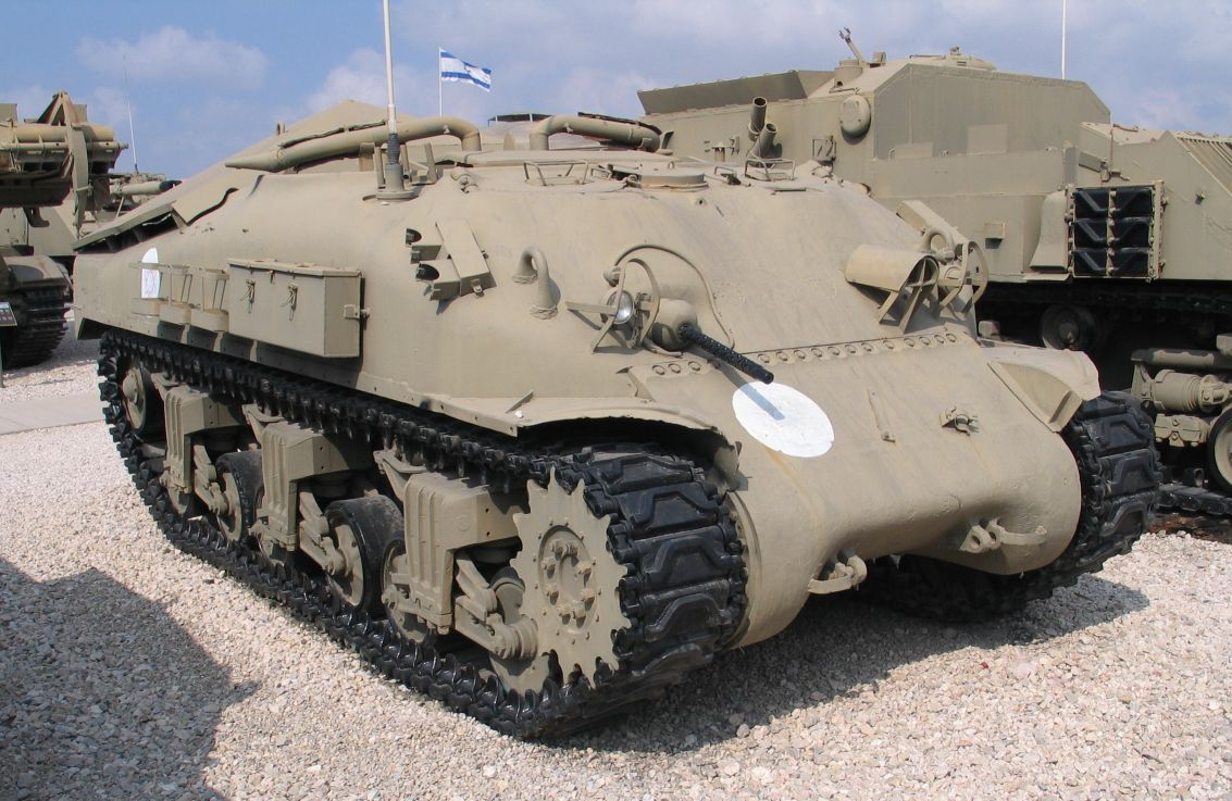 Description: Israeli medevac vehicle on M4 Sherman tank chassis in Yad la-Shiryon Museum, Israel. 2005. Source: Photo by me, User:Bukvoed.